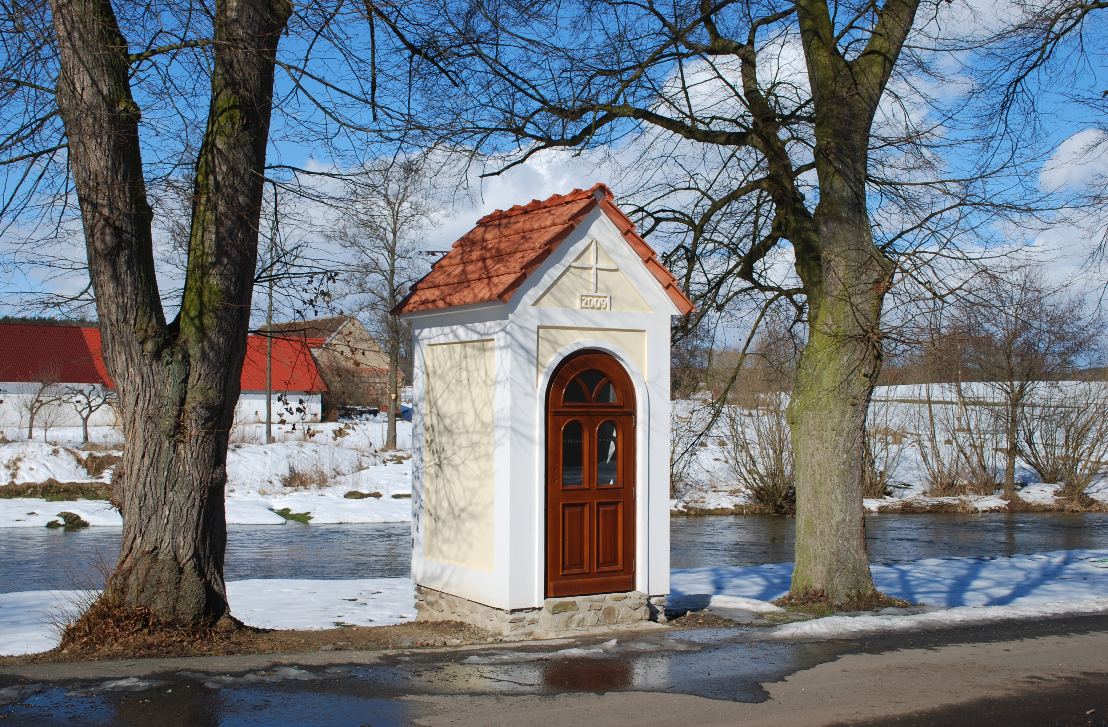 Rataje village in Tábor District, Czech Republic. Chapel near Smutná River. This photograph was taken within the scope of the 'Czech Municipalities Photographs' grant.